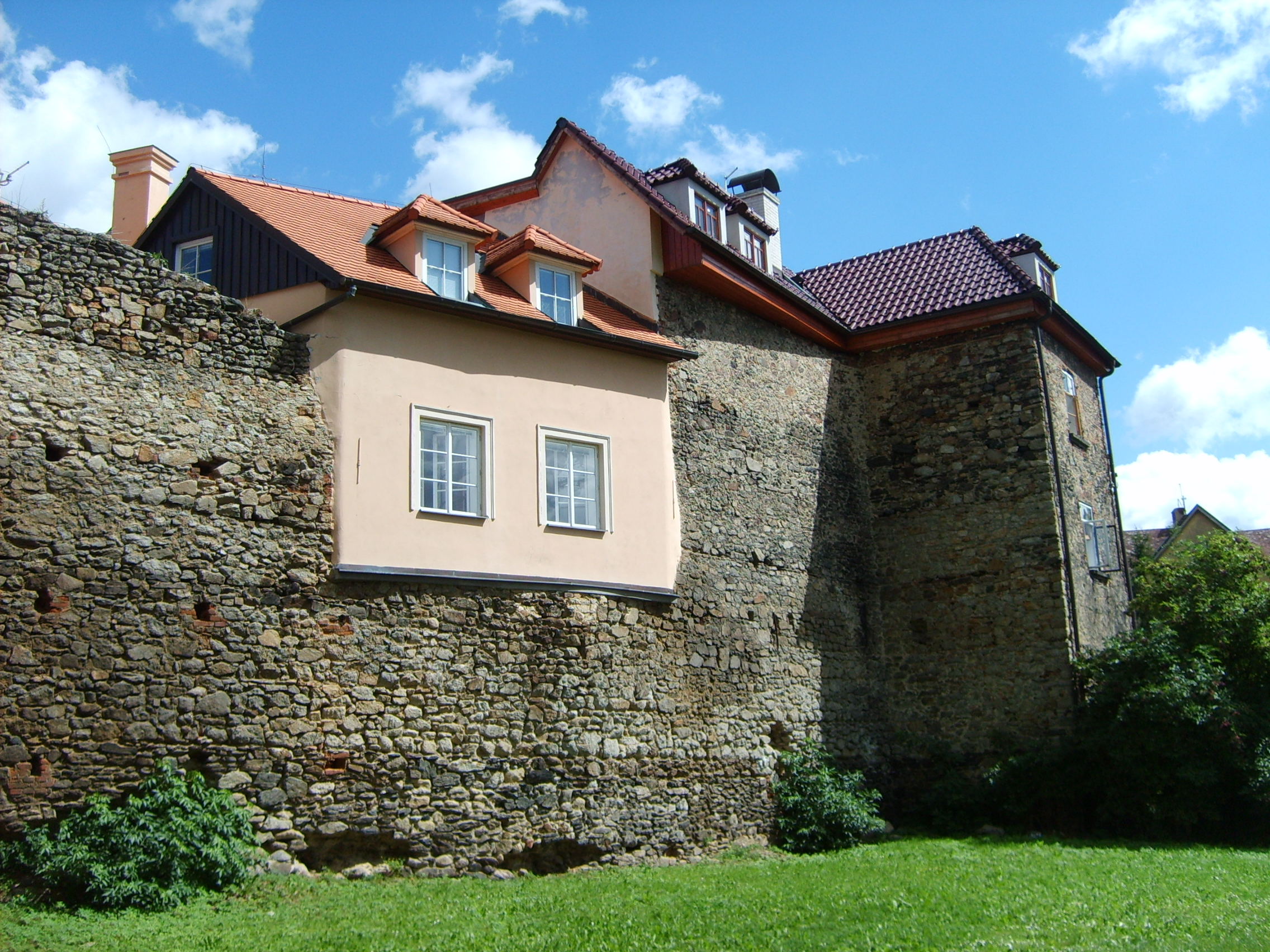 City walls in Tachov.